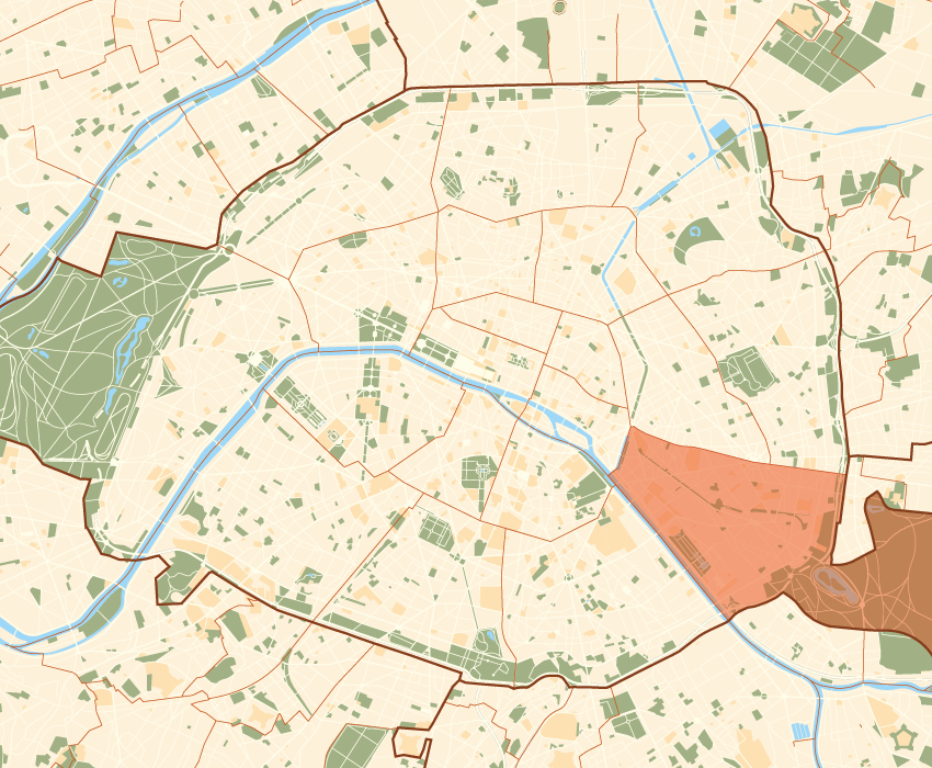 Plan by ThePromenader (own work)